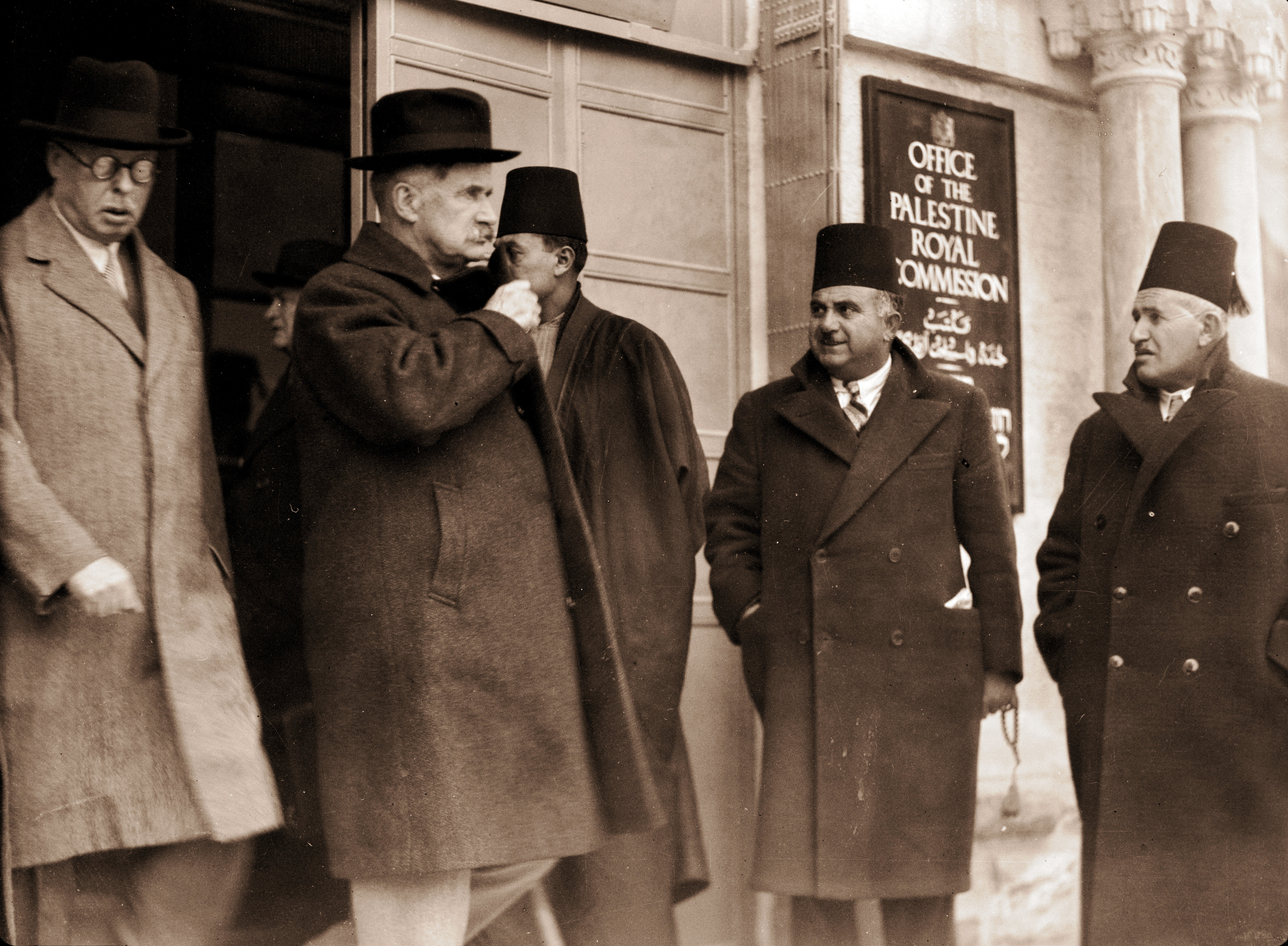 Palestine Disturbances. Lord Peel & the Right Hon. Sir Horace Rumbold, Chairman & Vice Chairman of the Palestine Royal Commission leaving the offices after taking evidence from Arab Higher Committee.